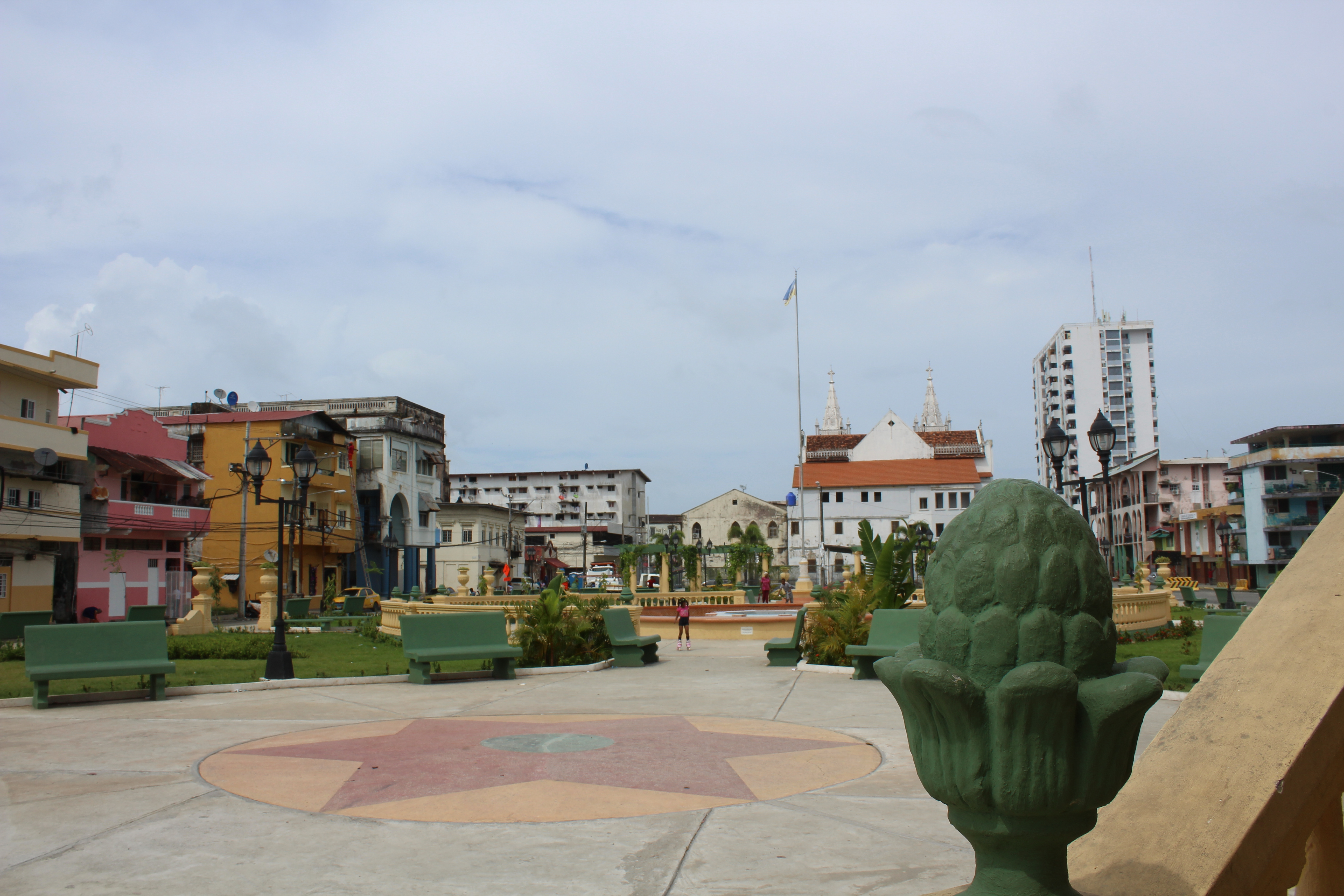 Parque 5 de Noviembre in Colón City, Panamá.